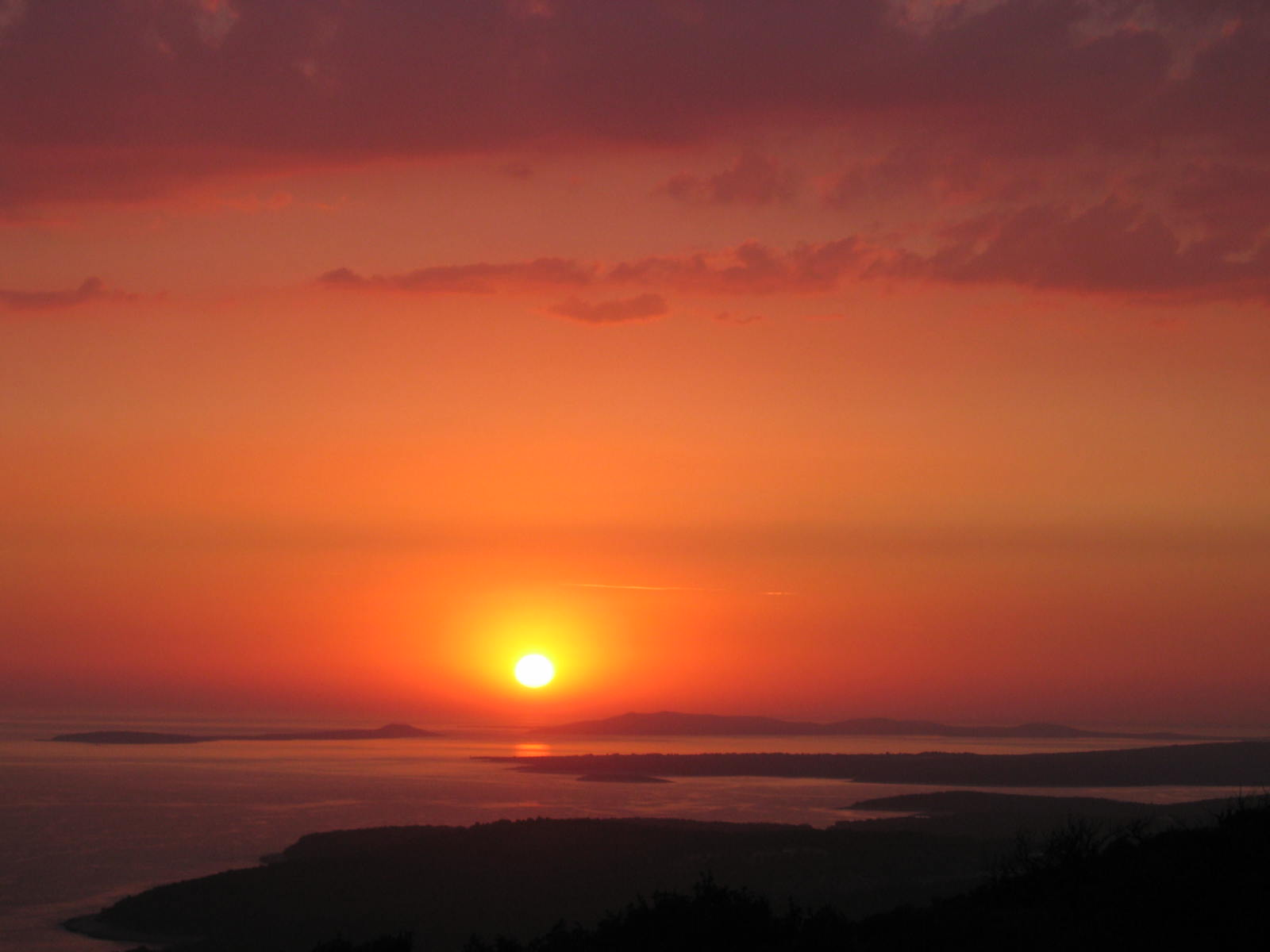 Kvarner islands, Croatia